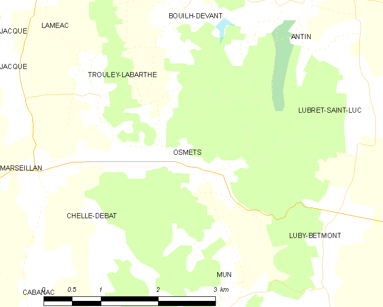 Map of French municipality